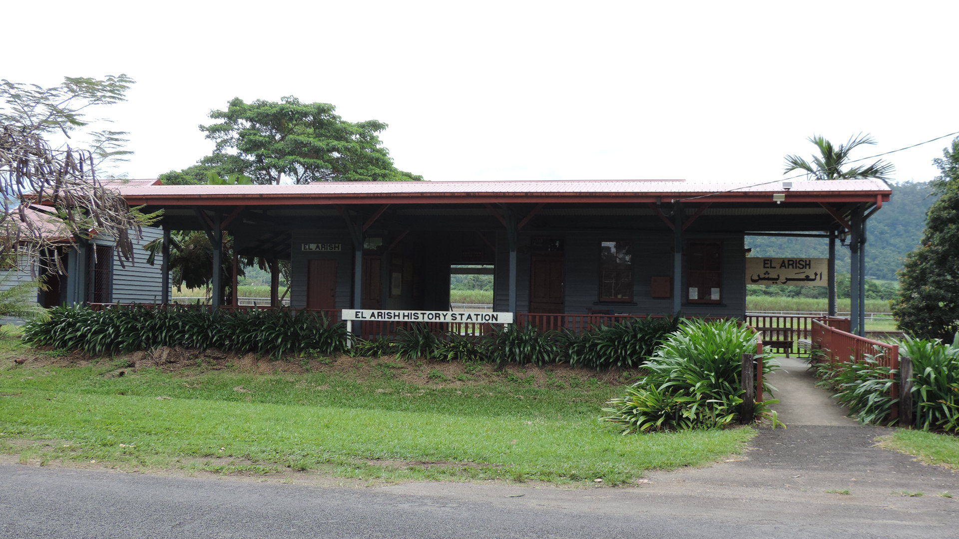 The former El Arish railway station in Queensland, now a "history station"